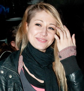 Valeria Kozlova at the celebrating the 15th anniversary of the program News Block on MTV Russia